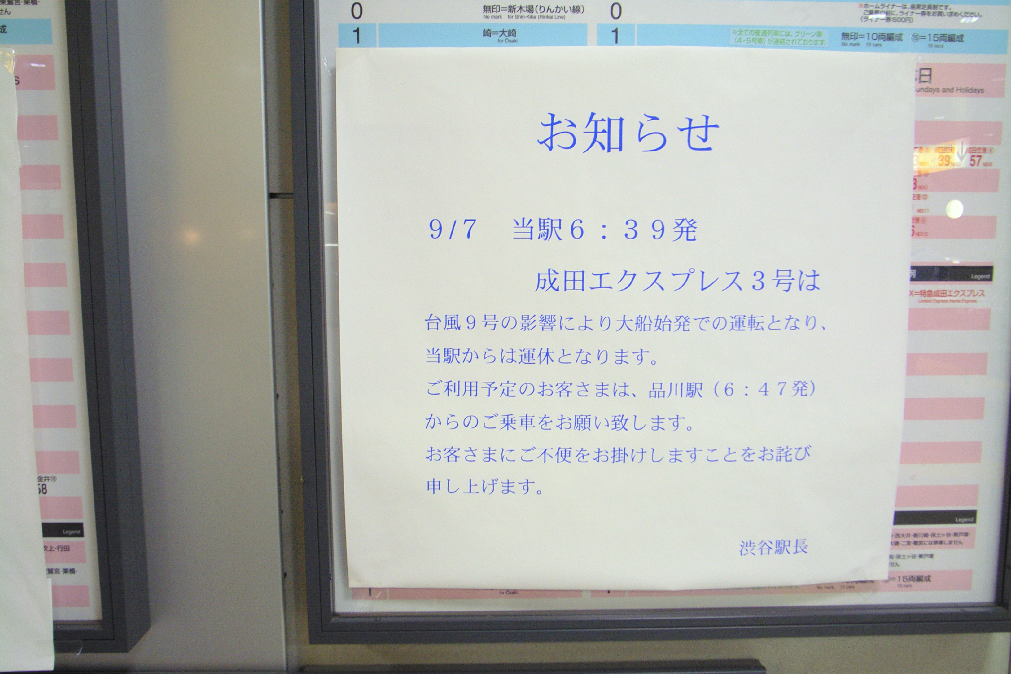 Typhoon No_9